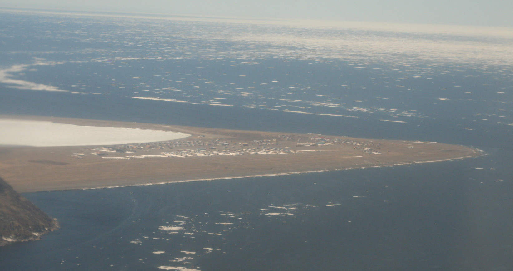 Flying into Gambell,Saint Lawrence Island, Alaska